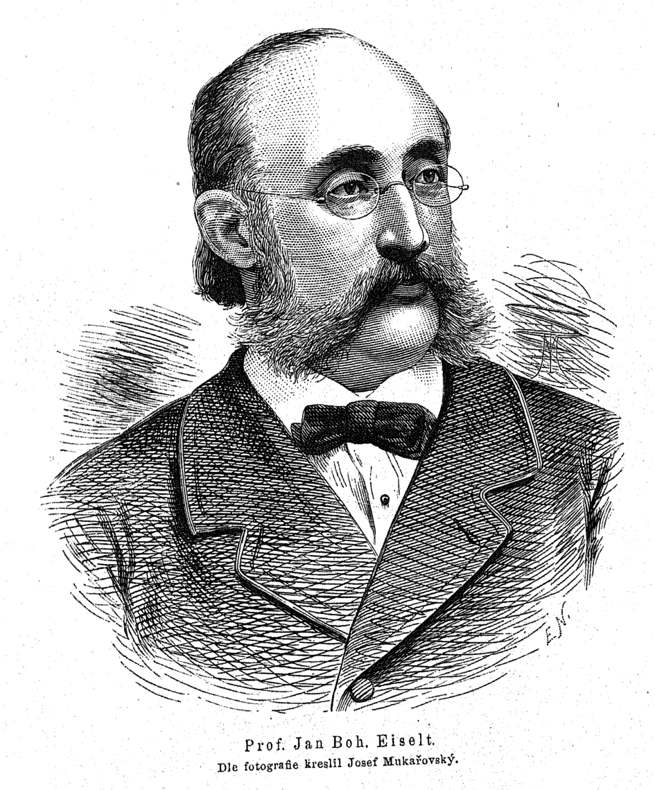 Portrait of (Jan) Bohumil Eiselt, Czech physician, first Czech teacher of Medical Faculty of Charles University in Prague and editor of medical journals.